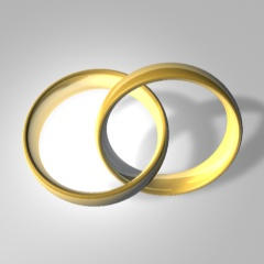 Wedding rings symbol/icon (for user stickers etc.), e.g. if she/he'd like to say I am married to the user "xxxyyy"